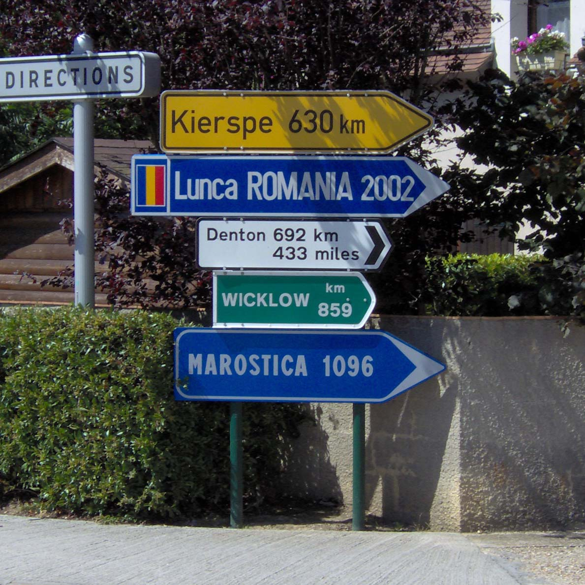 Sign stating the distances to the town hall of Montigny-le-Brettonneux, indicating the distance between the city and its sister cities.